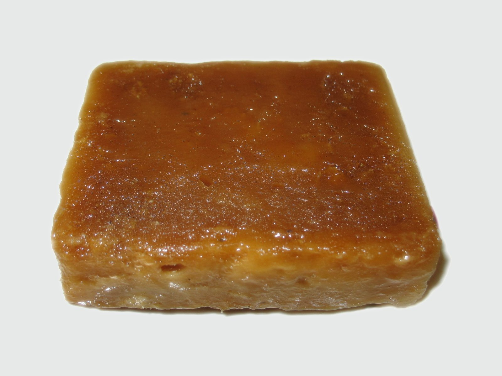 Panela